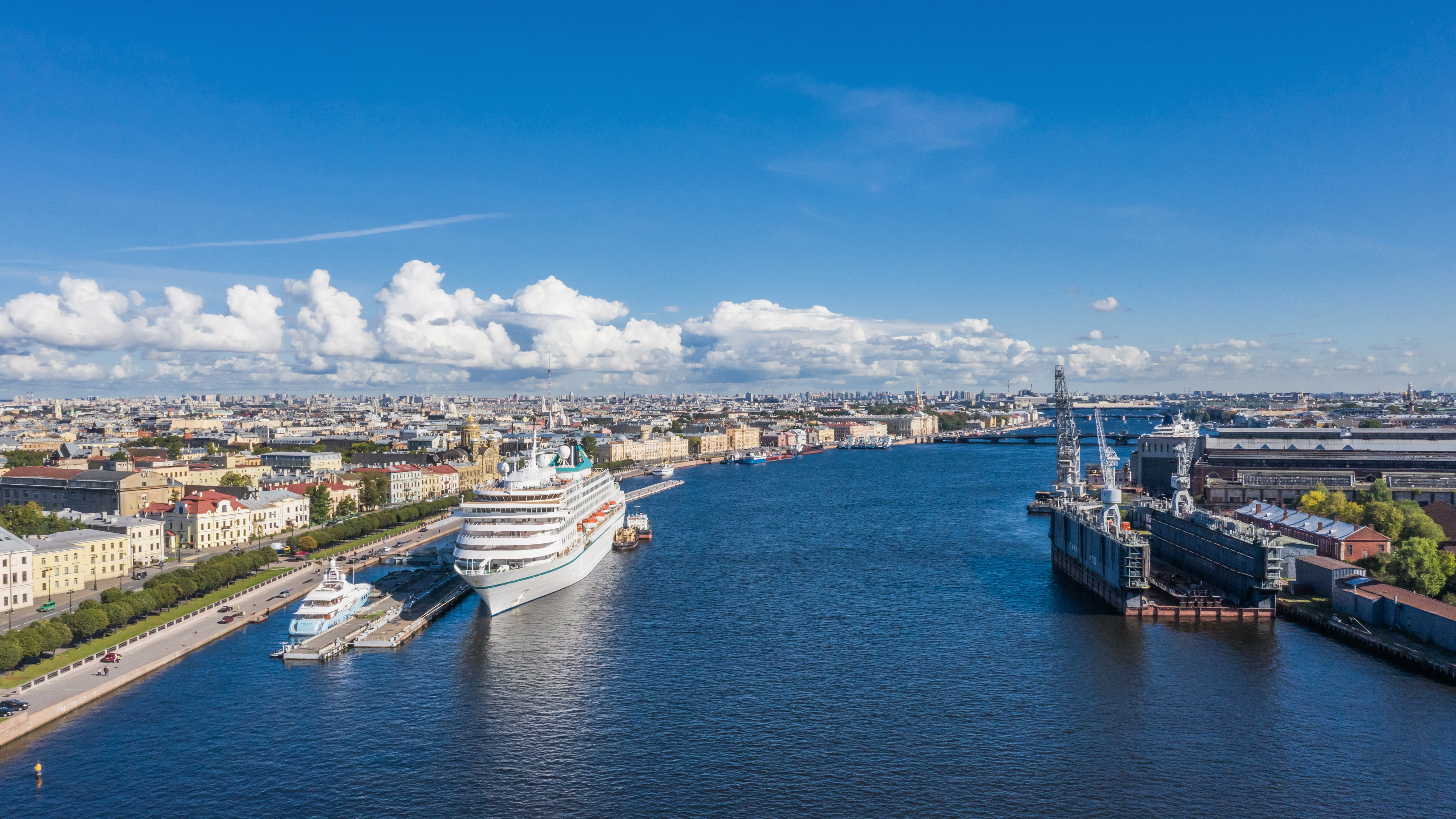 Neva River and Lieutenant Schmidt embankment in Saint Petersburg, Russia: aerial photo